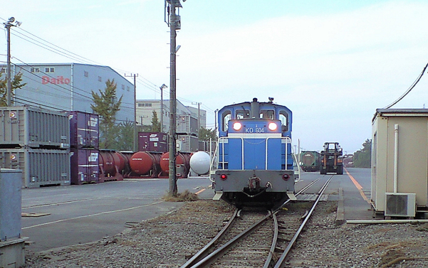 Keiyo Kubota Station of Keiyo Rinkai railway.